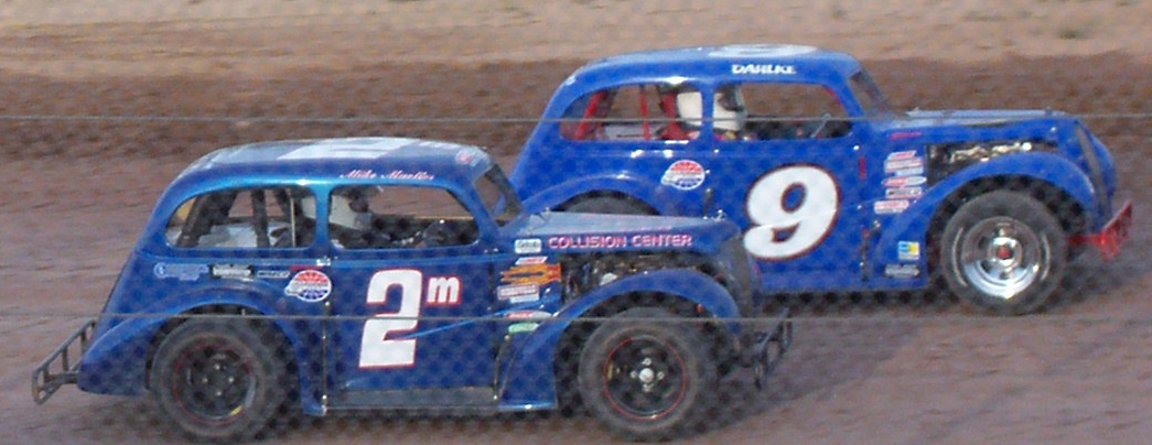 This image was taken at the aces at Charter Raceway Park in Beaver Dam, Wisconsin, USA. INEX Legends 2m Michael Mueller, 9 Butch Dahlke